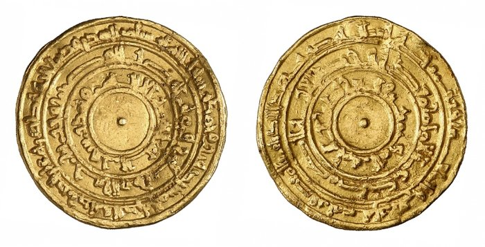 Fatimid dinar (gold, 4.14 g), minted in al-Mansuriyah in 344 AH / 955 AD during the reign of the Fatimid emir al-Moez li-dini Allah (341-365 AH / 953-975 AD)